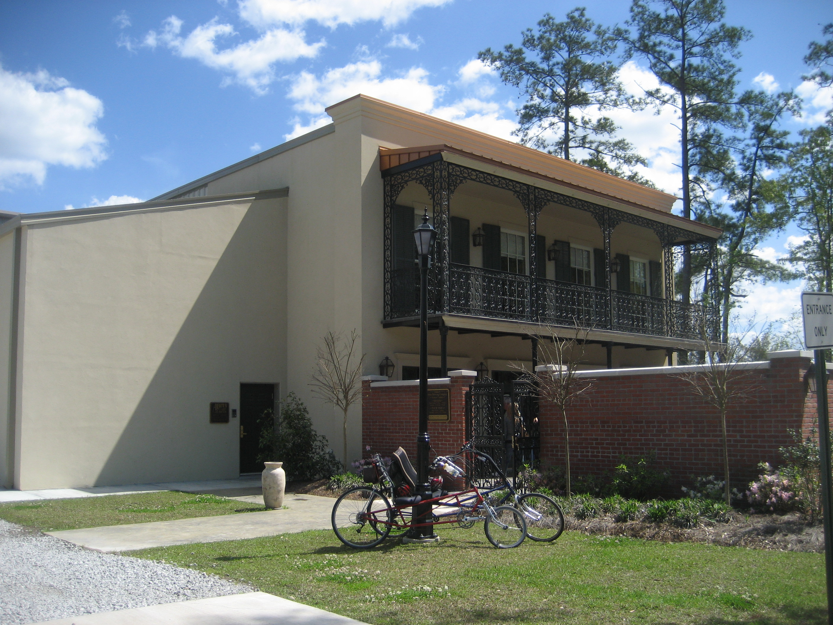 Abita Brewery, Abita Springs, Louisiana. Visitors Center building